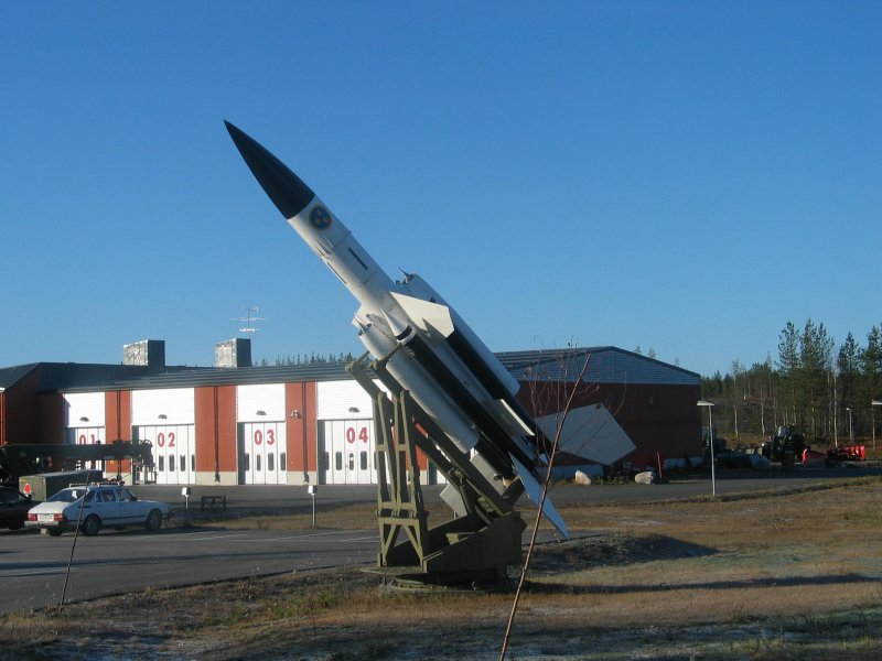 Rb 365 Bloodhound Mk I